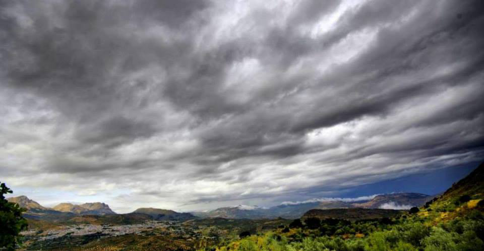 clouds on Priego de Córdoba